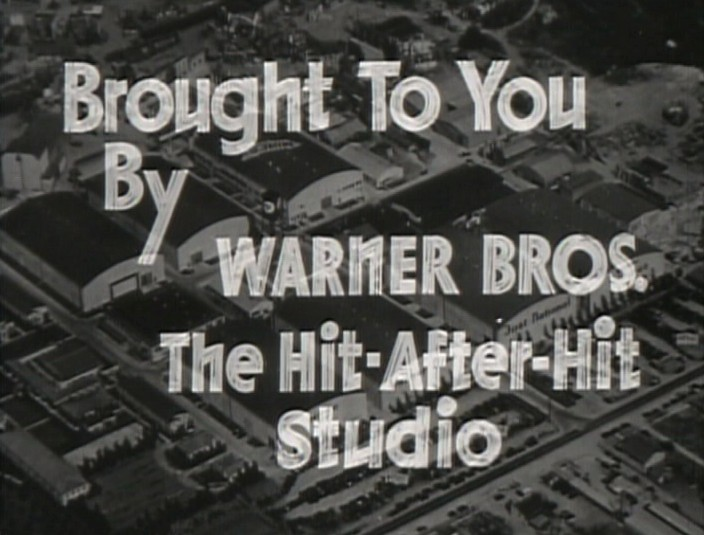 Cropped screenshot of the Warner Brothers film studios from the trailer for the film The Petrified Forest.